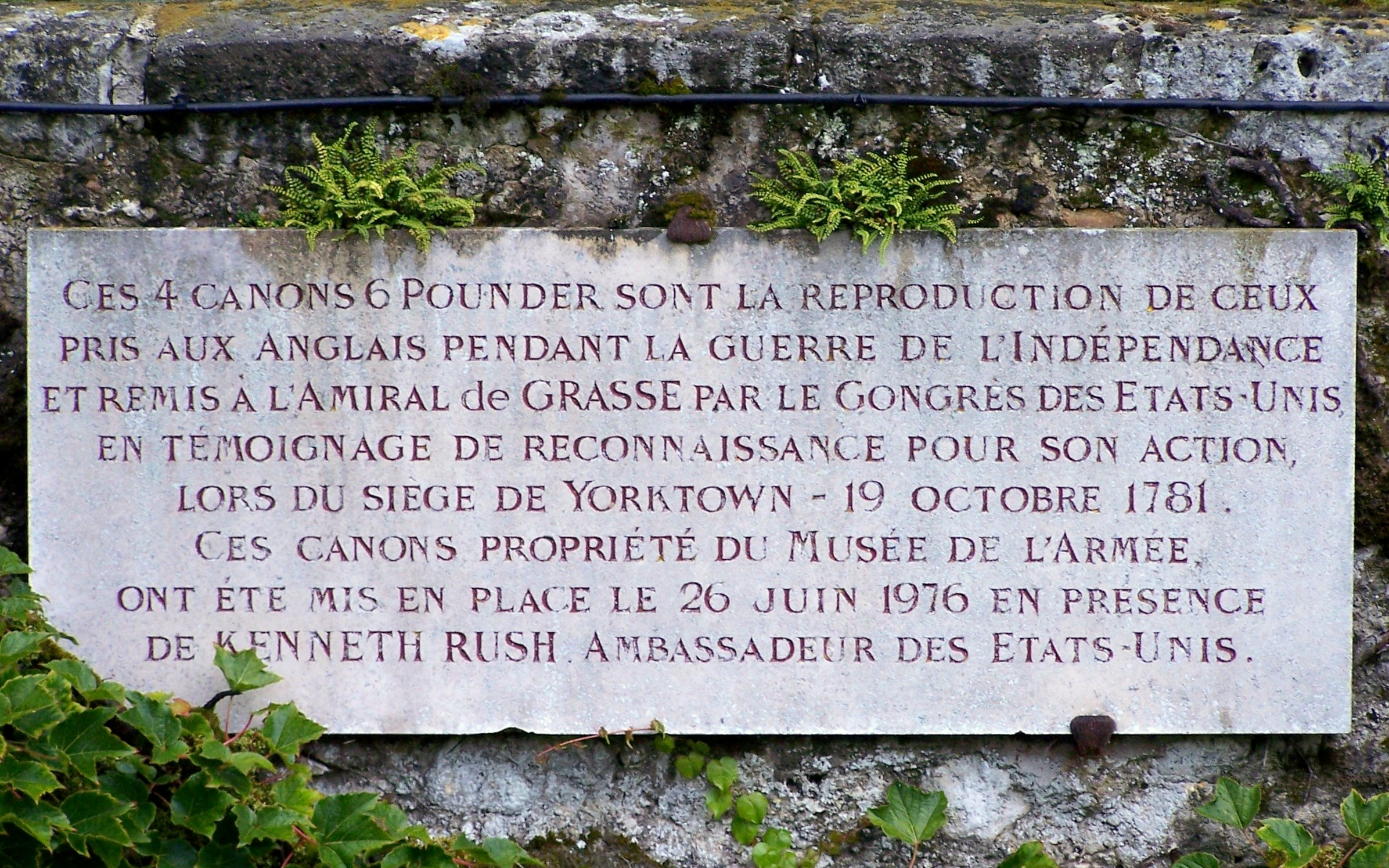 Commemorative plate of the admiral de Grasse in Tilly (Yvelines, France)